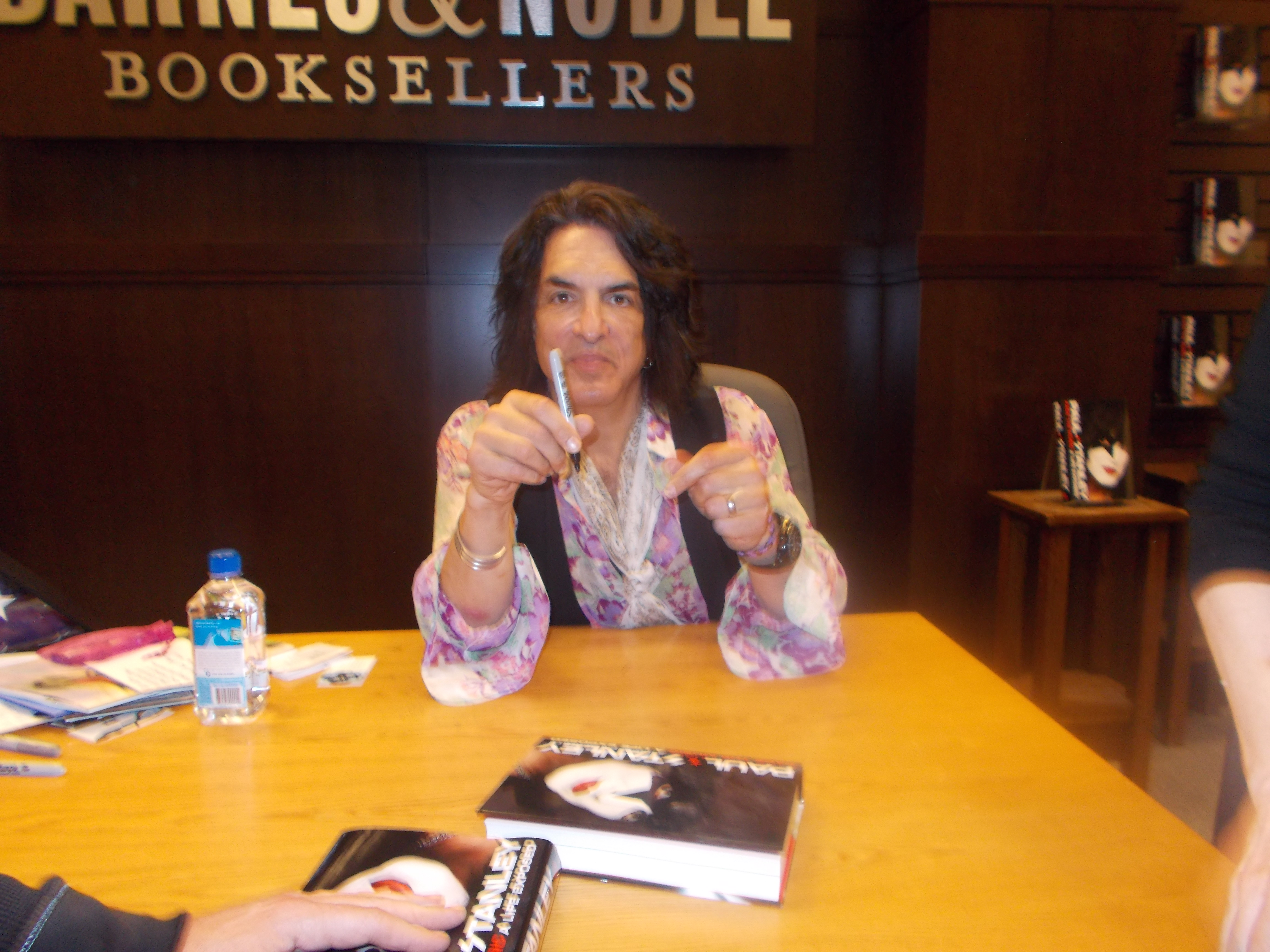 Paul Stanley signing his new book Face The Music A life Exposed at Barnes and Noble in Los Angeles on 4-16-14.